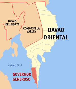 Map of the Davao Oriental showing the location of Governor Generoso